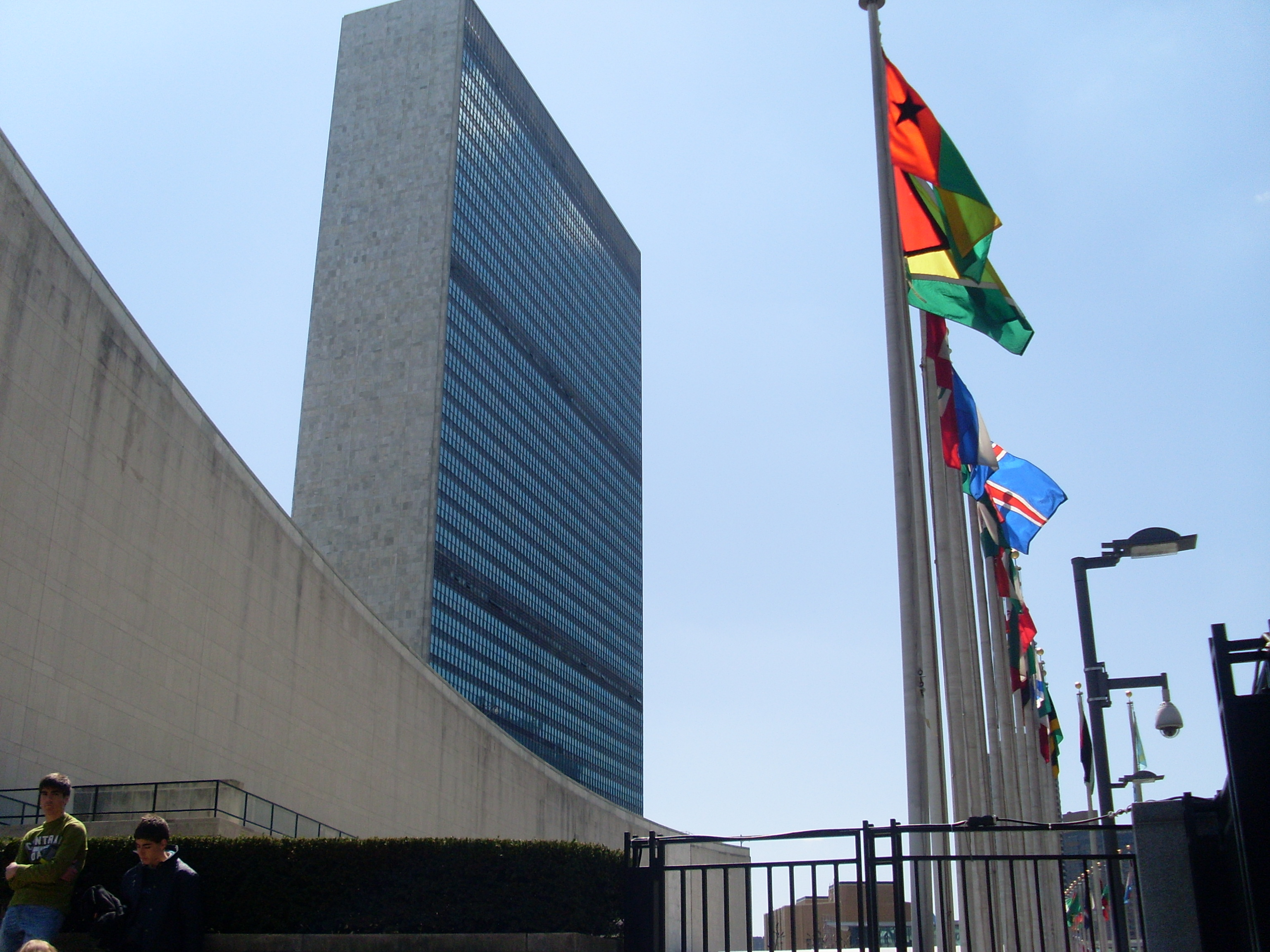 The UN headquarters in New York, viewed from the entrance with the gun statue and the weird cracked gold thing.